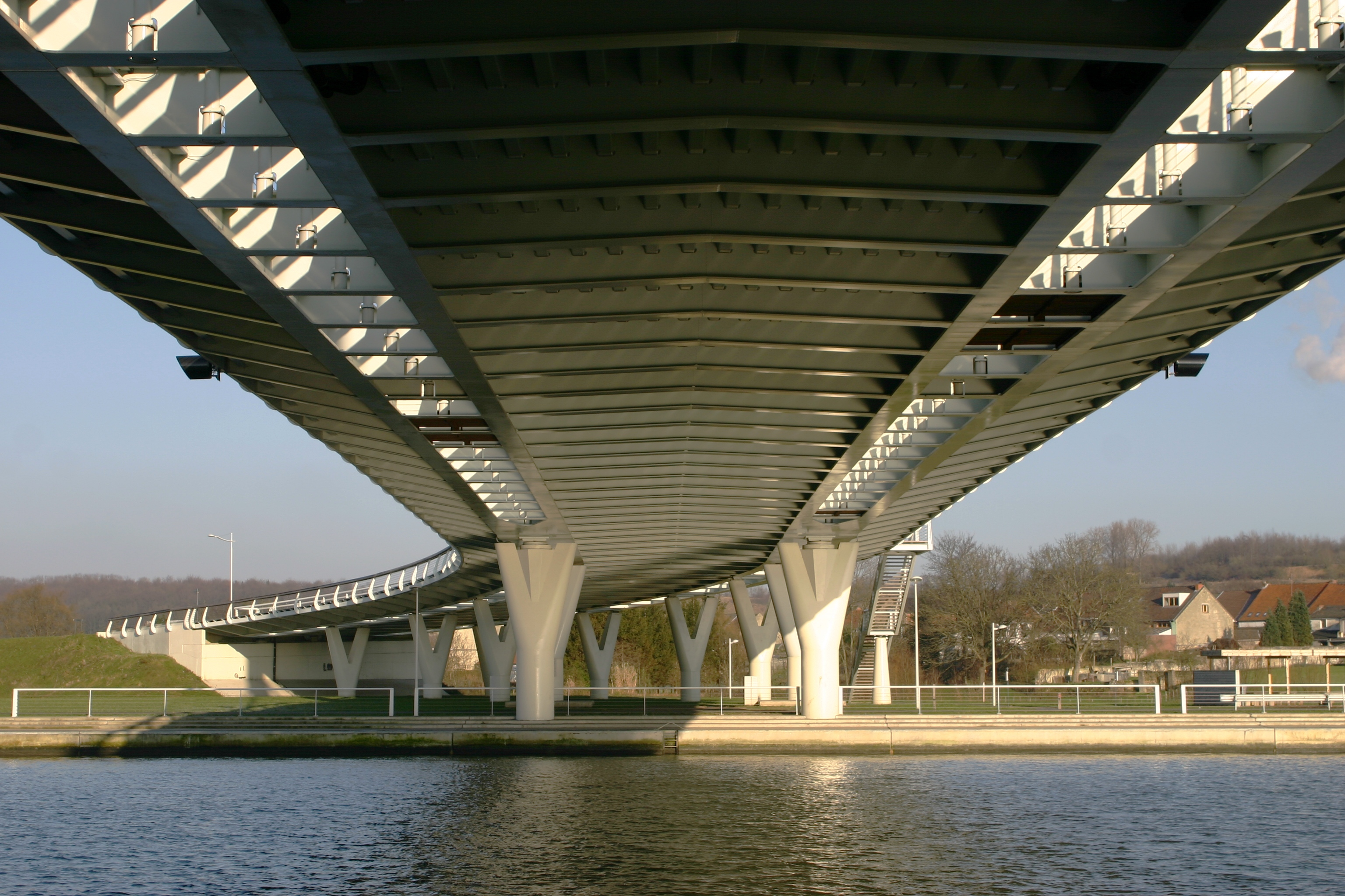 Bridge in Kanne view under the brigdge